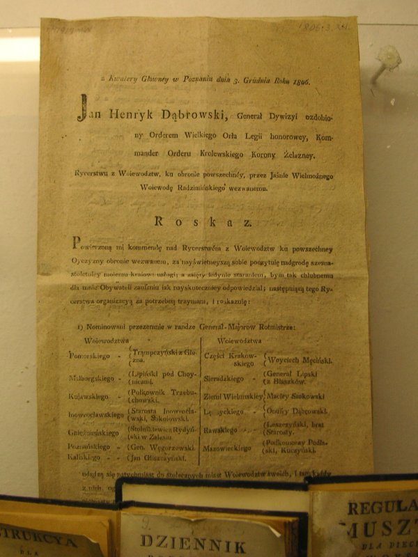 made during a summer day in Warsaw's Museum of the Polish Army; Order issued by Gen. Jan Henryk Dąbrowski on December 3, 1806